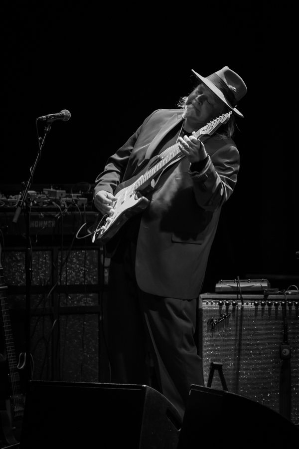 Knut Reiersrud and Billy Van performes at Cosmopolite during Oslo Jazzfestival 2015.